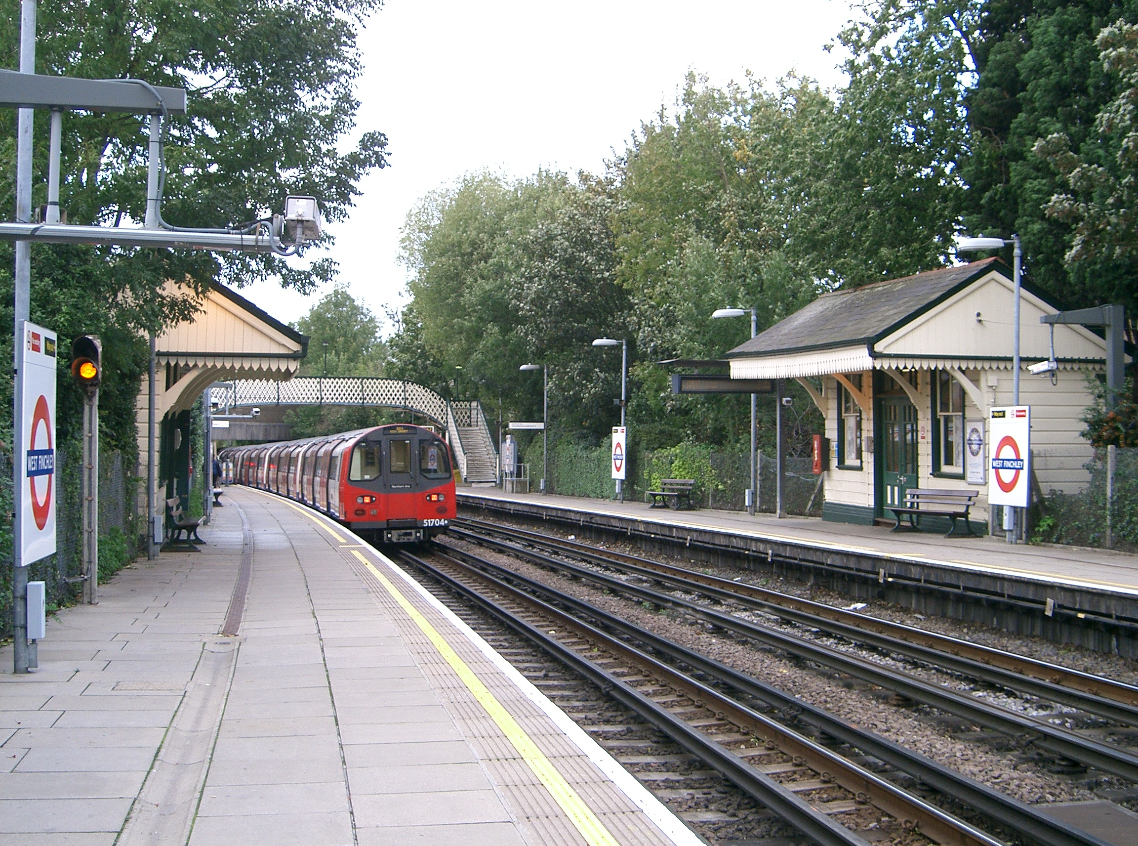 Northbound Northern Line train leaving West Finchley station which was originally opened on 1st March 1933 by the LNER with Northern Line services replacing the mainline steam trains on 14th April 1940. Photographed by SPSmiler.